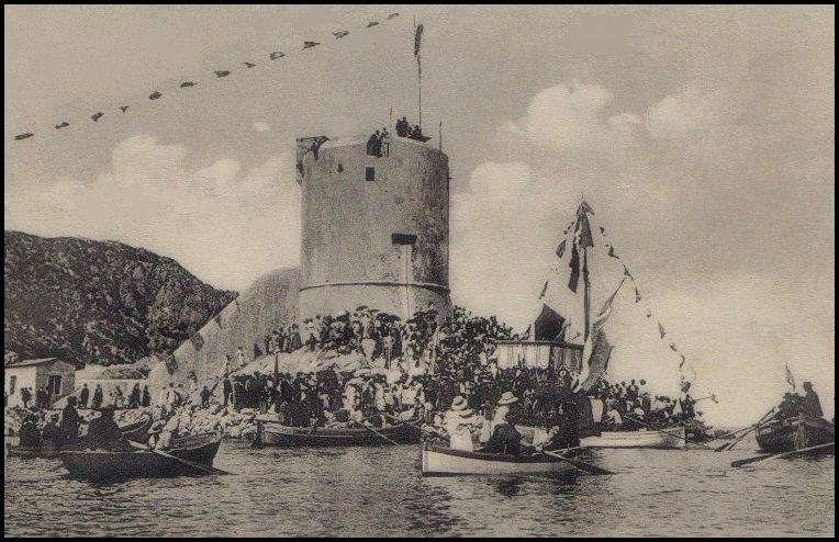 elba island